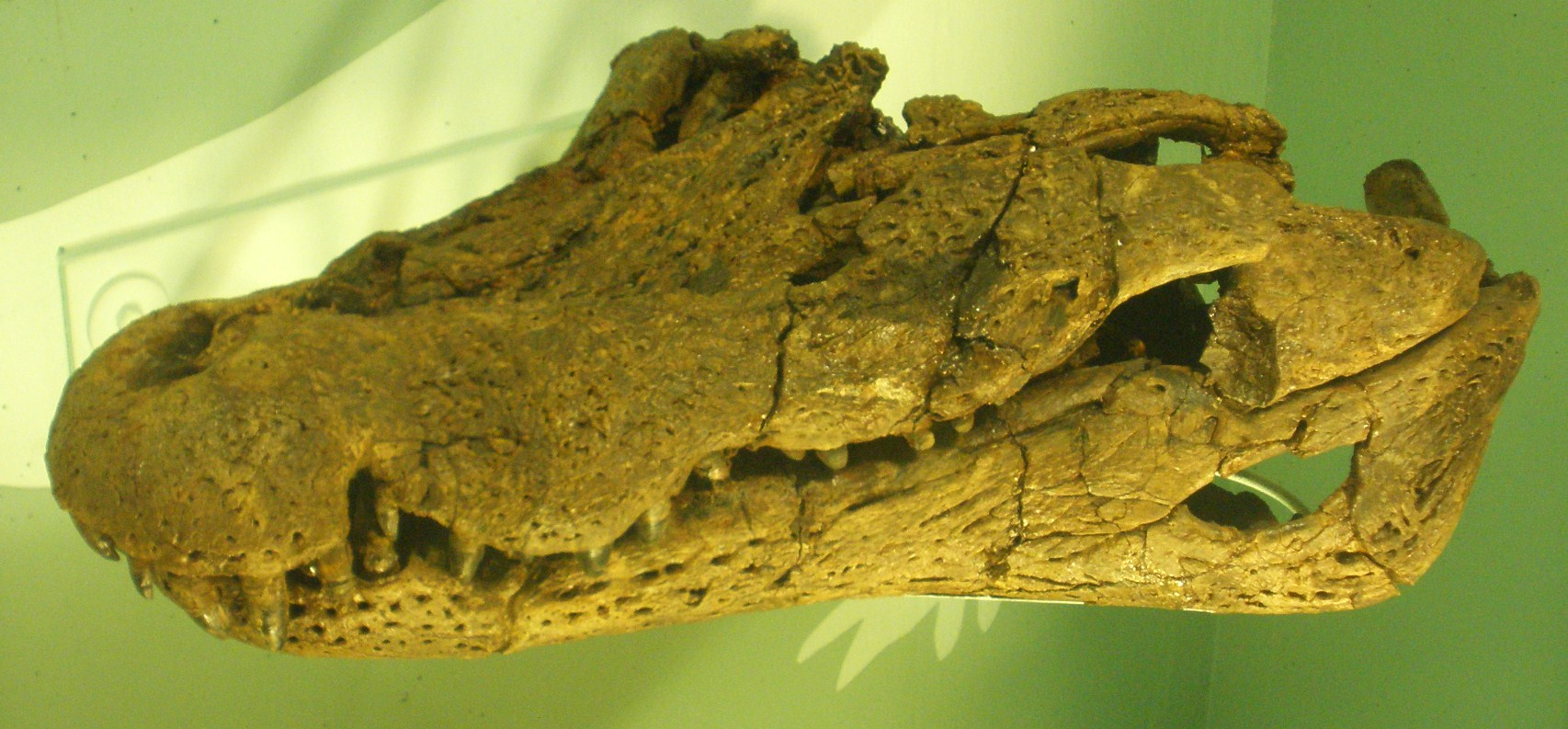 Fossil skull of Asiatosuchus, an extinct reptile. Took the photo at Senckenberg Museum of Frankfurt